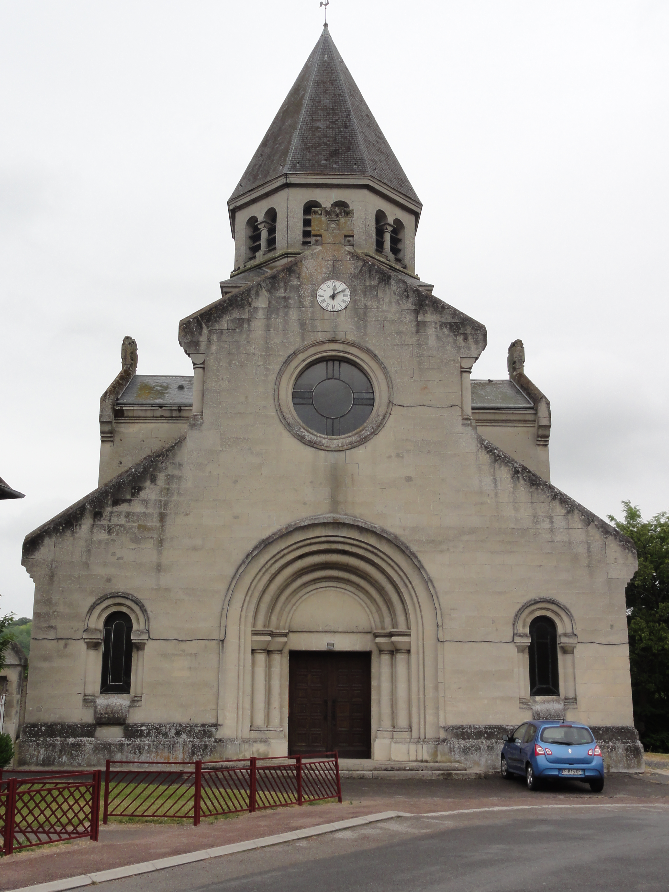 Leuilly-sous-Coucy (Aisne) église